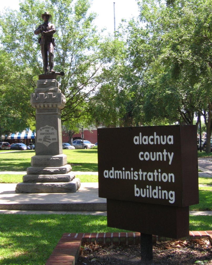 Gainesville Confederate Statue located next to Alachua County Administration Building